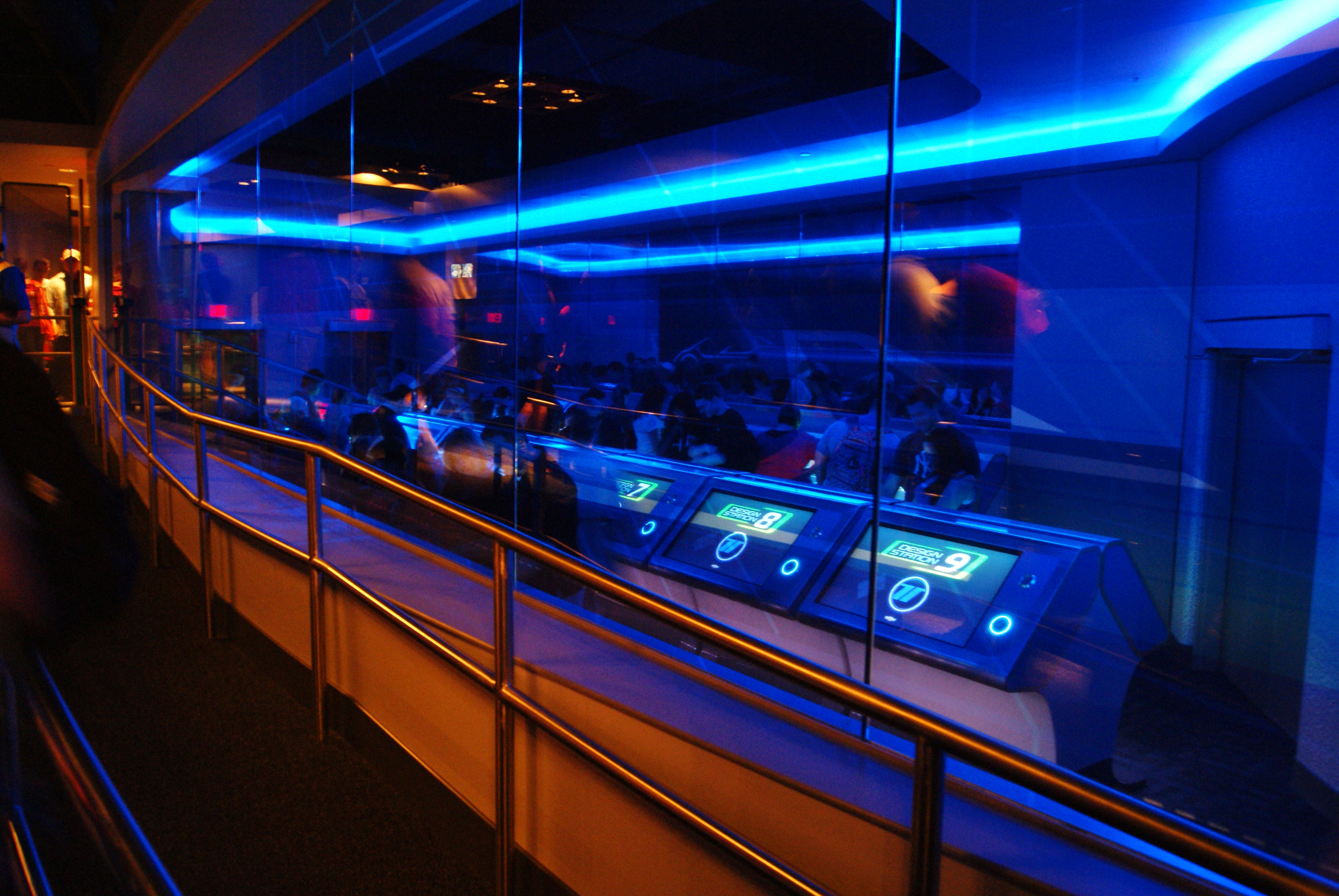 This is a photo of the area where guests design their cars before riding Test Track at Disney World's Epcot.